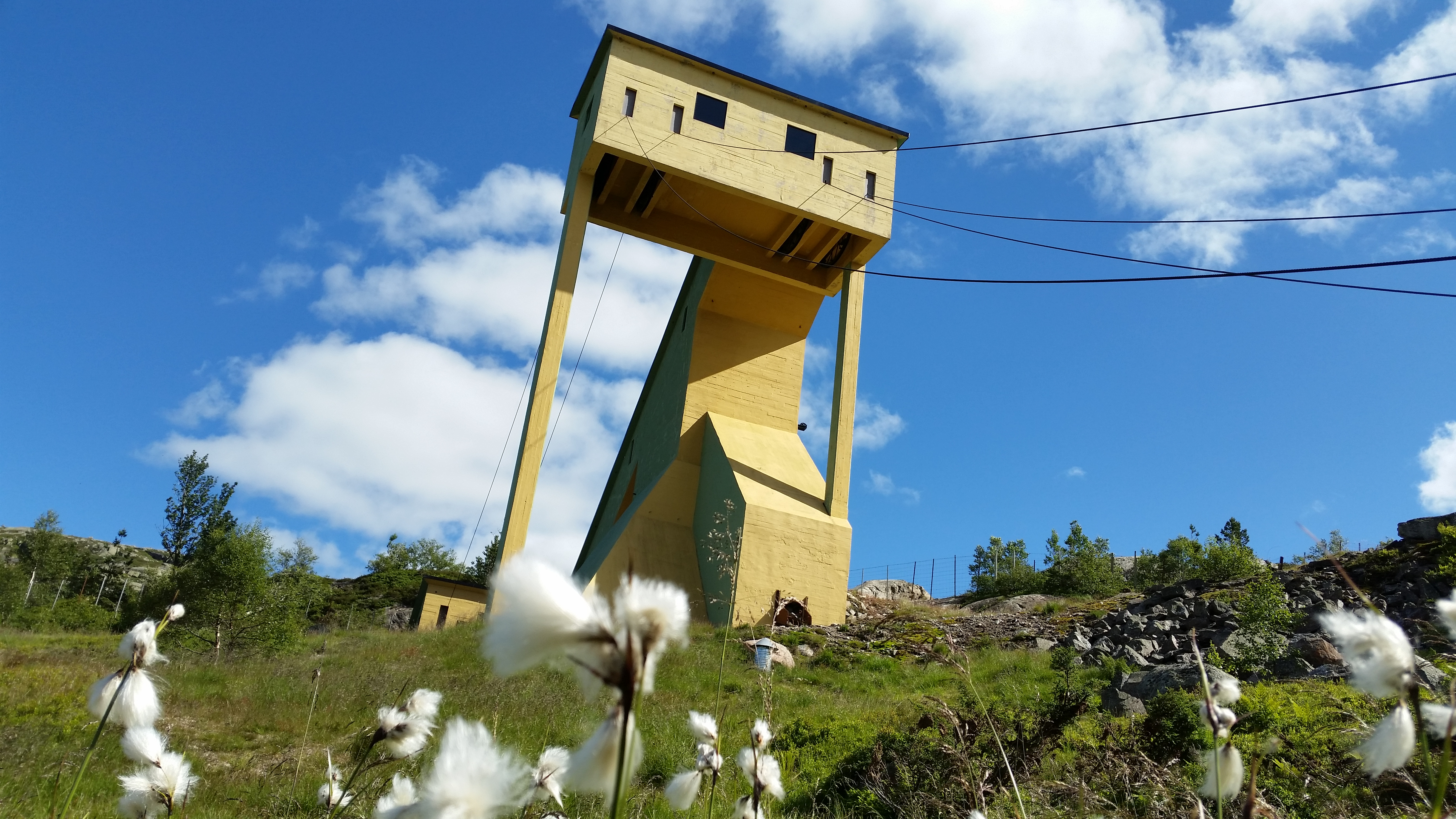 The Tower at Knaben